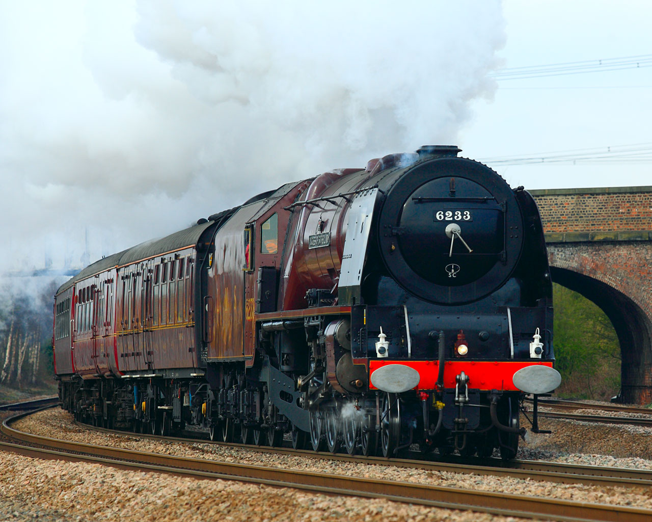 Steam loco in action - former LMS (London, Midland and Scottish) Stanier Pacific Loco no. 6233 "Duchess of Sutherland" steams past Monk Fryston, Yorkshire with an enthusiasts special on its way to York - 12-Apr-2008